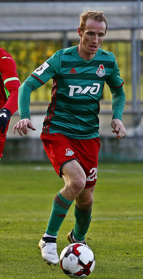 Vladislav Ignatyev playing for FC Lokomotiv Moscow in a friendly game against FC Ufa.